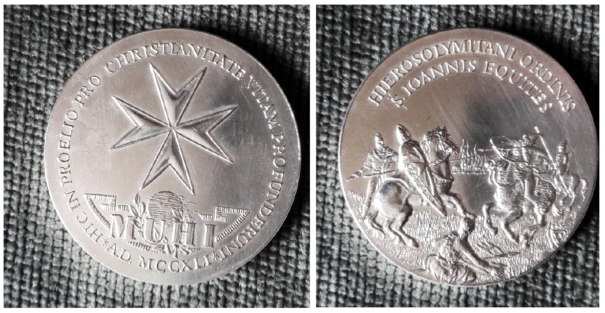 Commemorative medal issued in Hungary on the 750th anniversary of the battle of Muhi against the Mongol invaders, in which a large number of Hungarian Knights of Saint John (Hospitallers, later known as Knights of Malta) fought on the side of the King of Hungary.